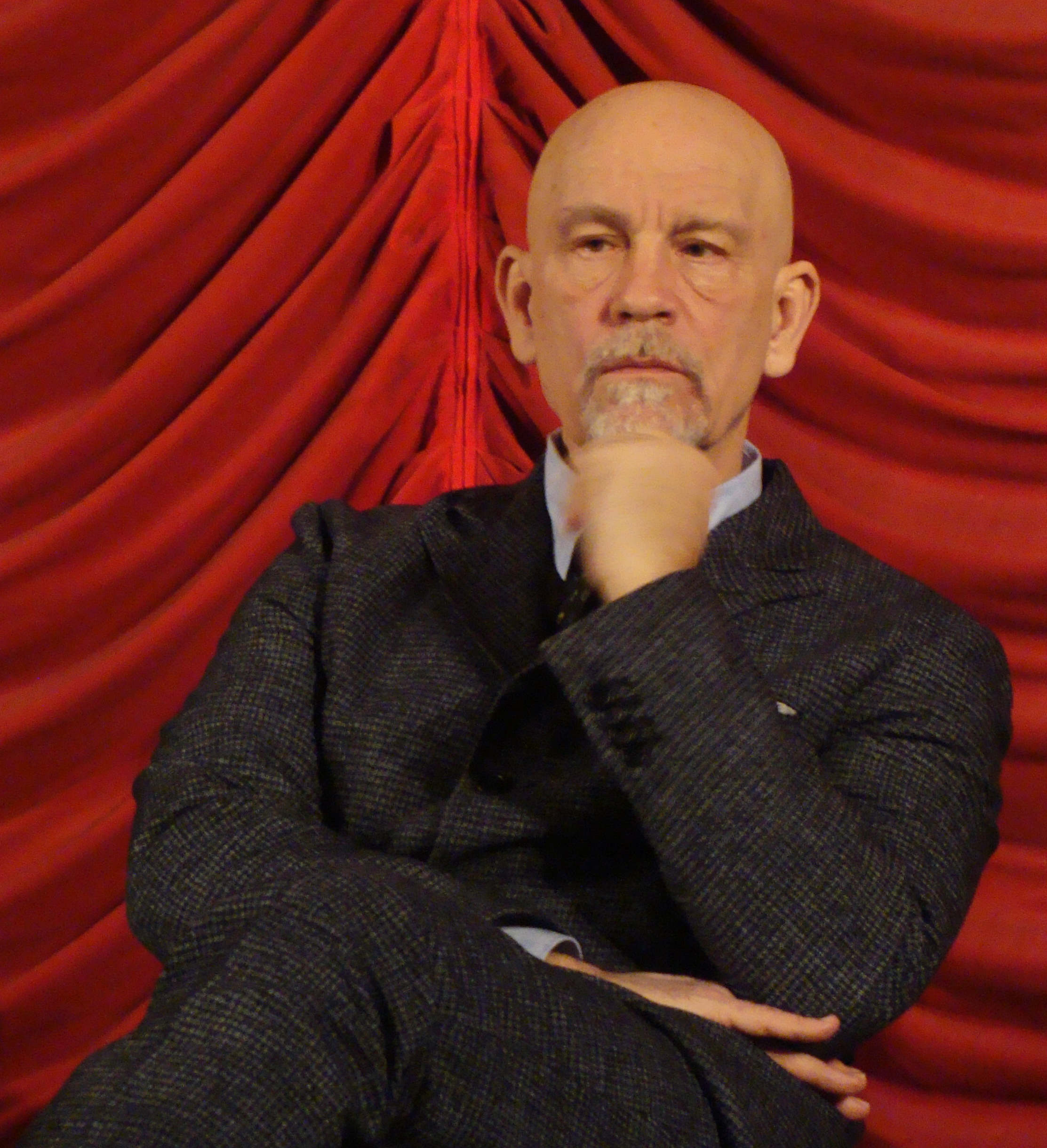 John Malkovich at a screening of "Casanova Variations" at the Gartenbaukino in Vienna, Austria. 19 January 2015